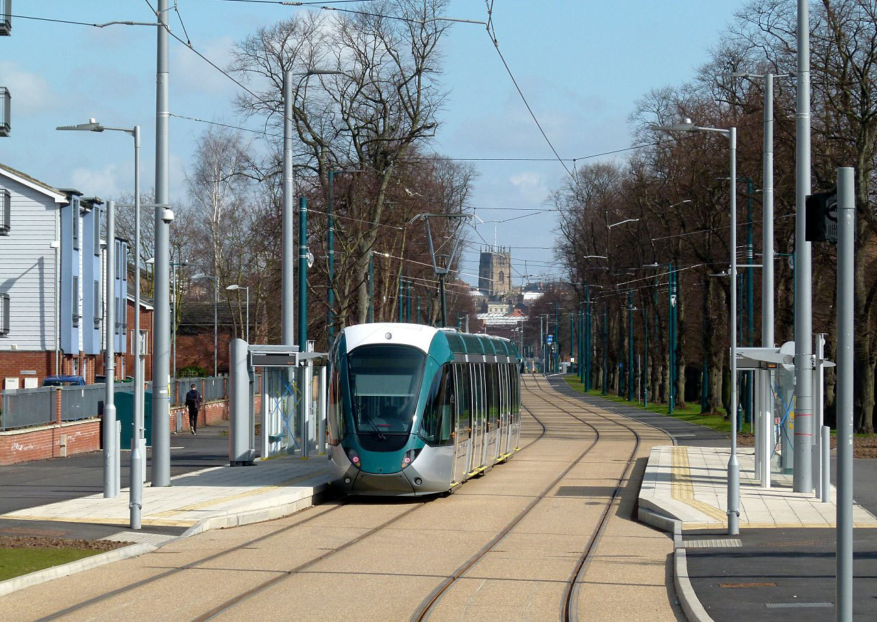 Tram on test at Meadows Embankment stop